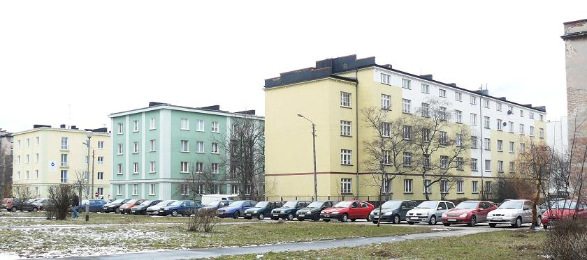 Komandoria District. Poznan.